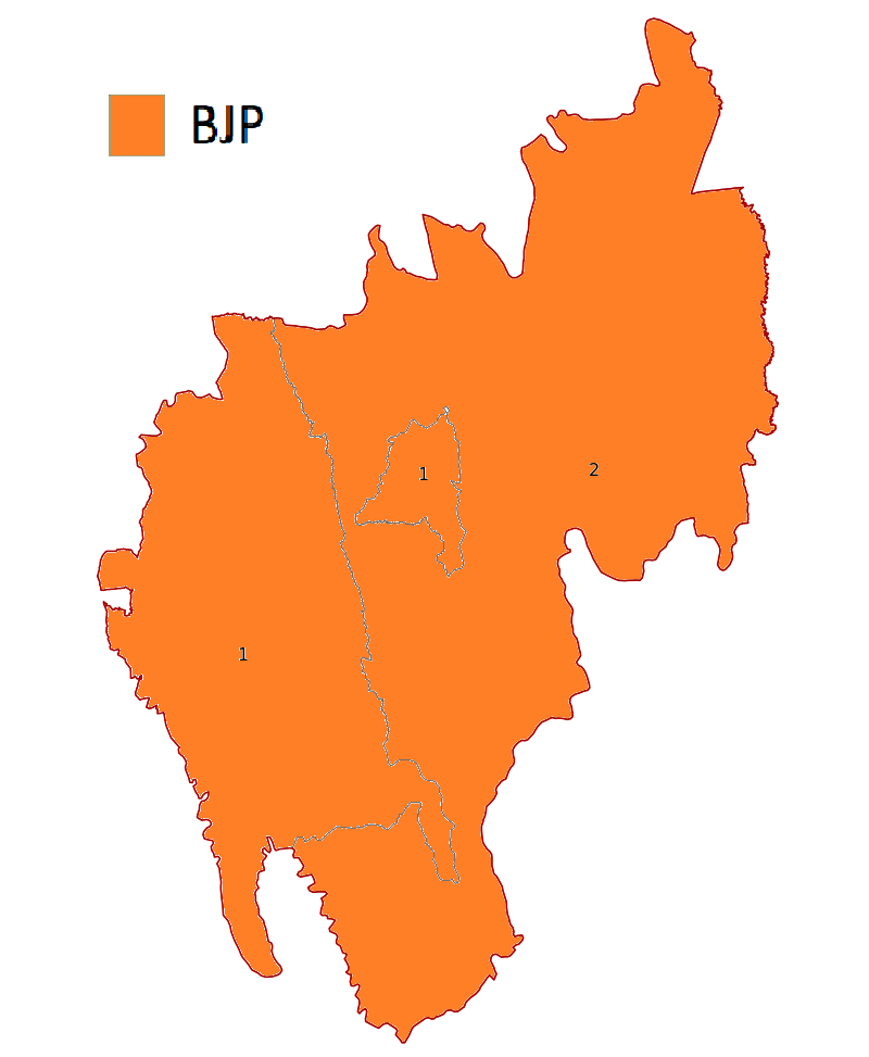 Seat Sharing of NDA in Tripura in General Election, 2019